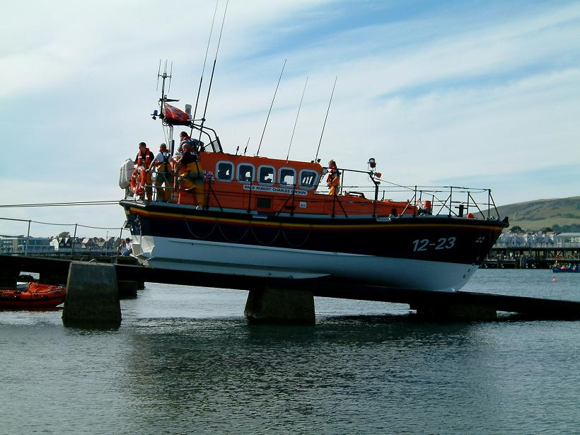 A lifeboat being winched up its slipway after a "shout" in Swanage, England